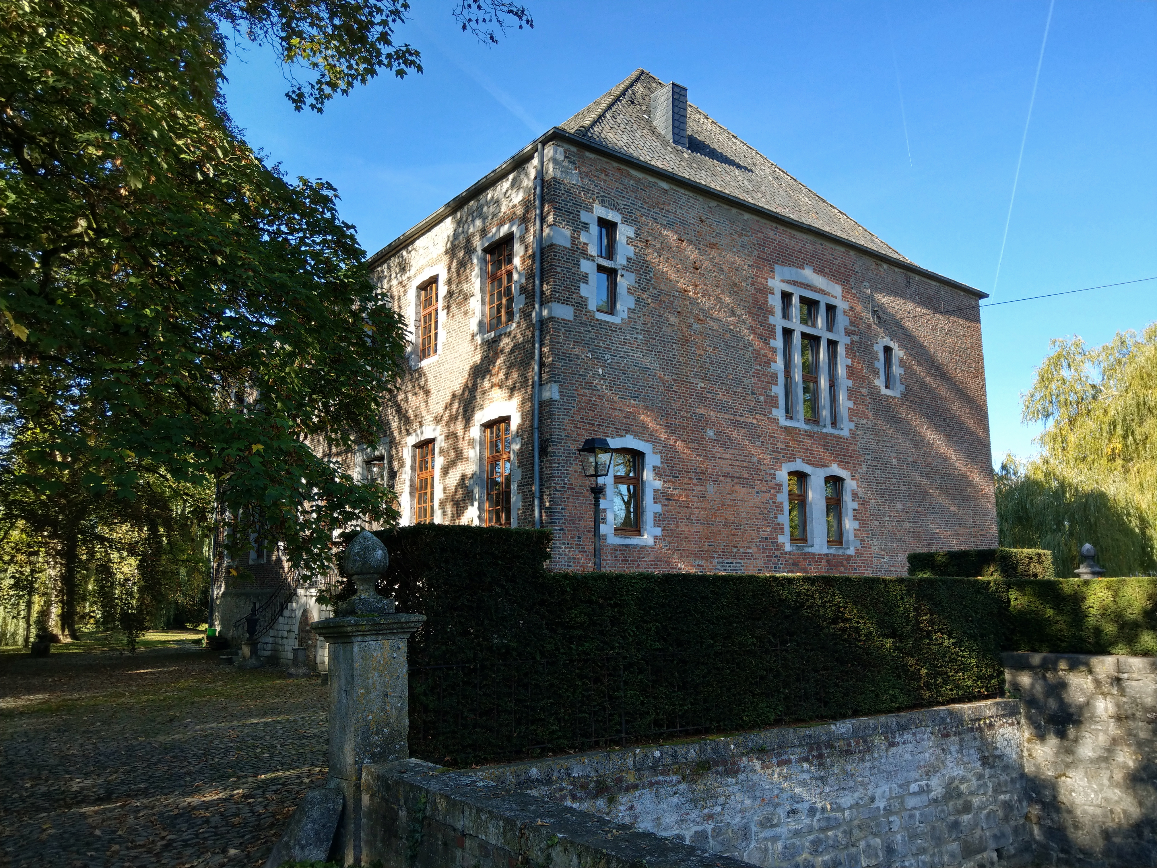 The domain is not publicly accessibleExplanations and history, see category